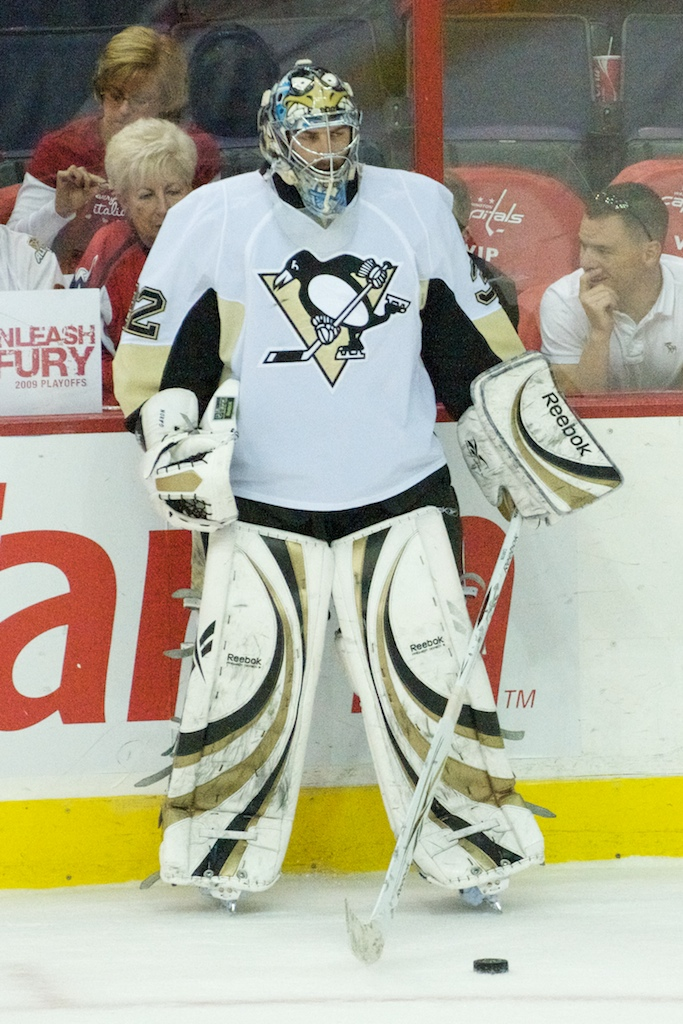 Mathieu Garon of the Pittsburgh Penguins before Game 7 against the Washington Capitals.